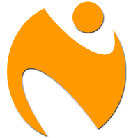 Logo of Ntional Infotech College